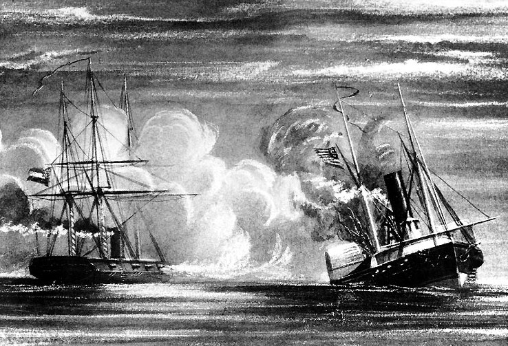 From U.S. Navy public domain Photo #: NH 53690 USS Hatteras (1861-1863) (right) 19th Century print, depicting the sinking of Hatteras by CSS Alabama, off Galveston, Texas, 11 January 1863.